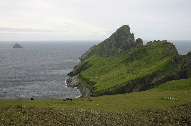 Dun, St Kilda. Viewed from Ruabhal in the adjacent square, hence supplemental.